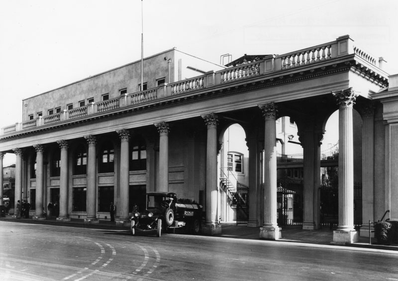 Exterior view of the Triangle at Metro-Goldwyn-Mayer Studios, located at 10202 Washington Boulevard in Culver City. A Richfield gasoline truck is seen in front of the columned building. Photo dated: 1916.